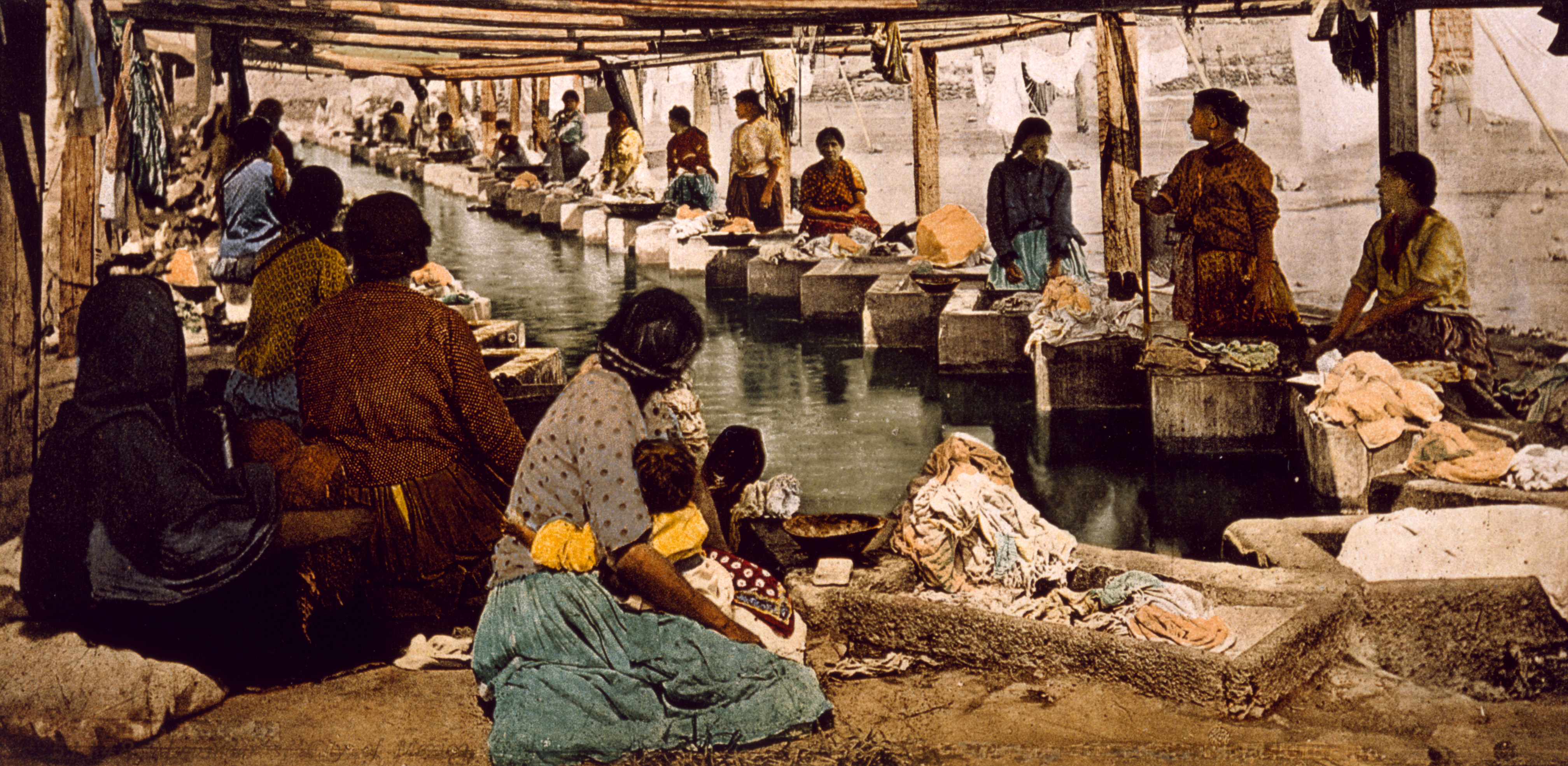 Photochrom of Lavanderas in Mexico City